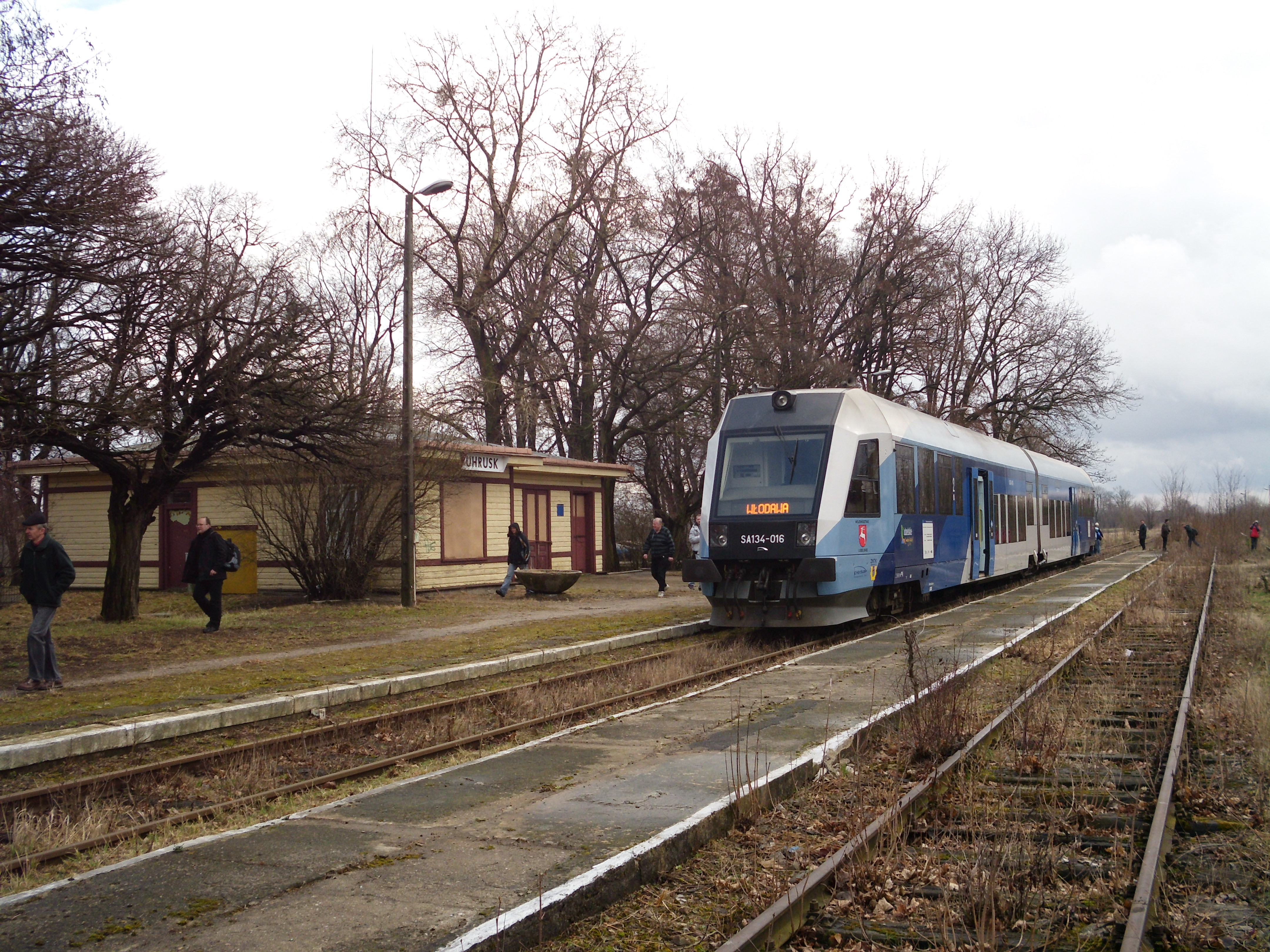 Tourist train (diesel railcar SA134-016) at Uhrusk station (named after Uhrusk village but actually located in Wola Uhruska), on a Chełm to Włodawa route in Poland.